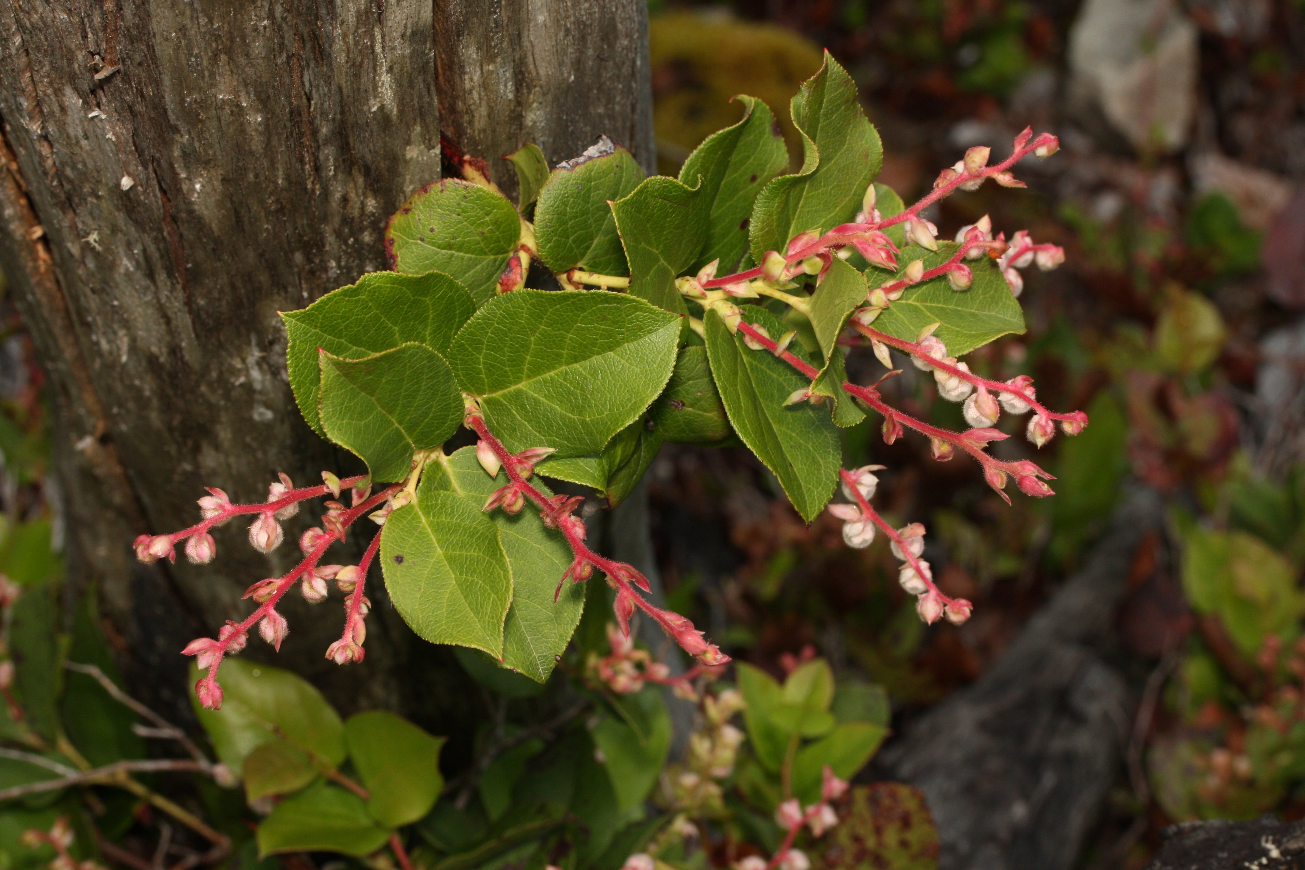 Salal